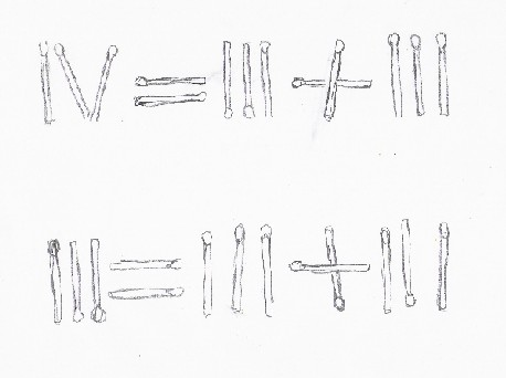 matchstick arithmetic problem with possible solutions IV=VII-III and III=III+I-I